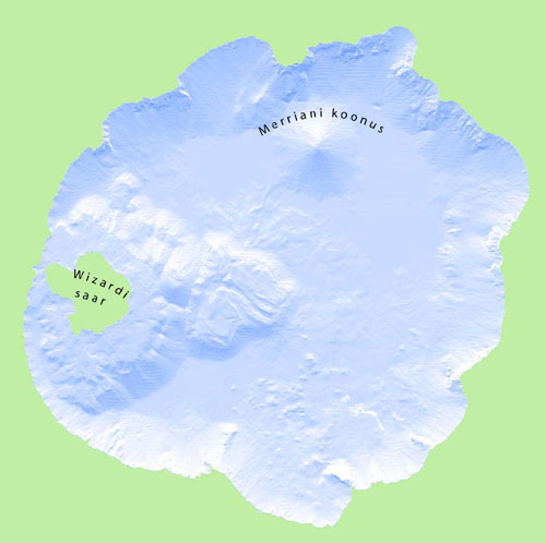 Crater Lake bottom relief